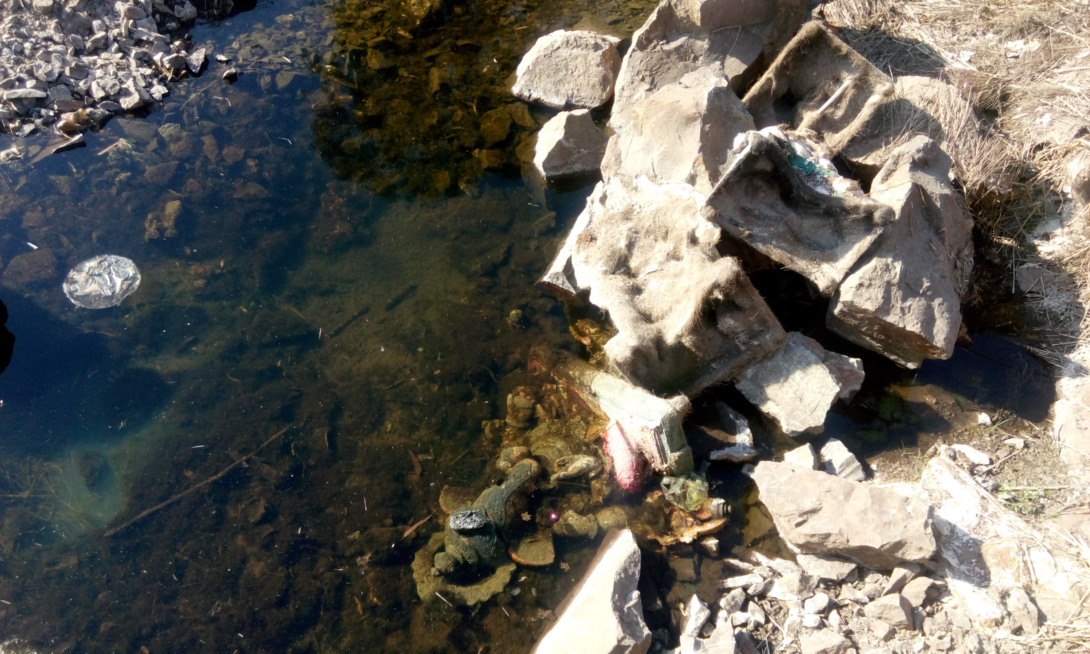 After ganesh idol visarjan water body gets contaminated due to idols toxic paints.